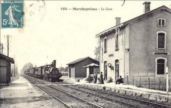 The station of Marcheprime around 1920